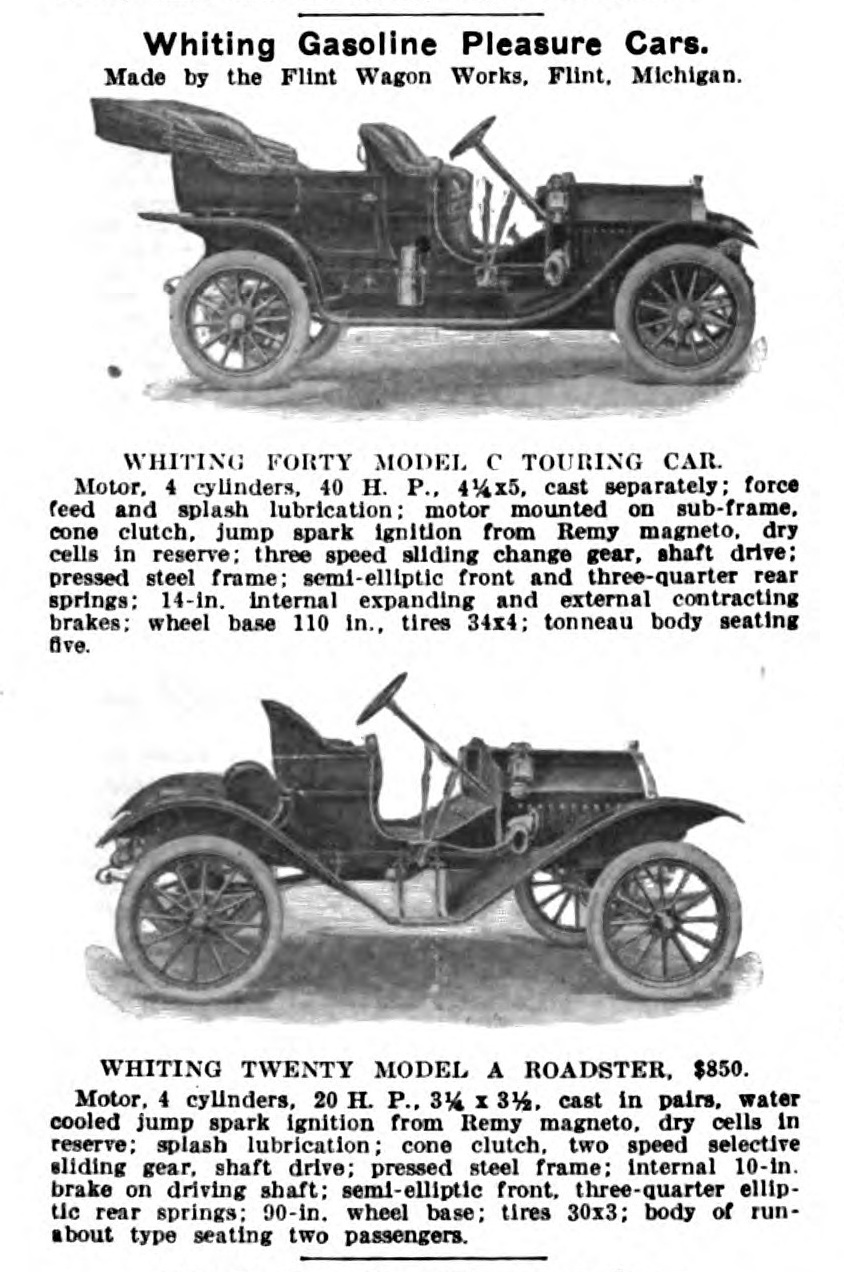 1910 Whiting automobiles by Flint Wagon WorksTenth Annual Complete Motor Car Review. ’’Cycle and Automobile Trade Journal’’ March 1, 1910, Philadelphia